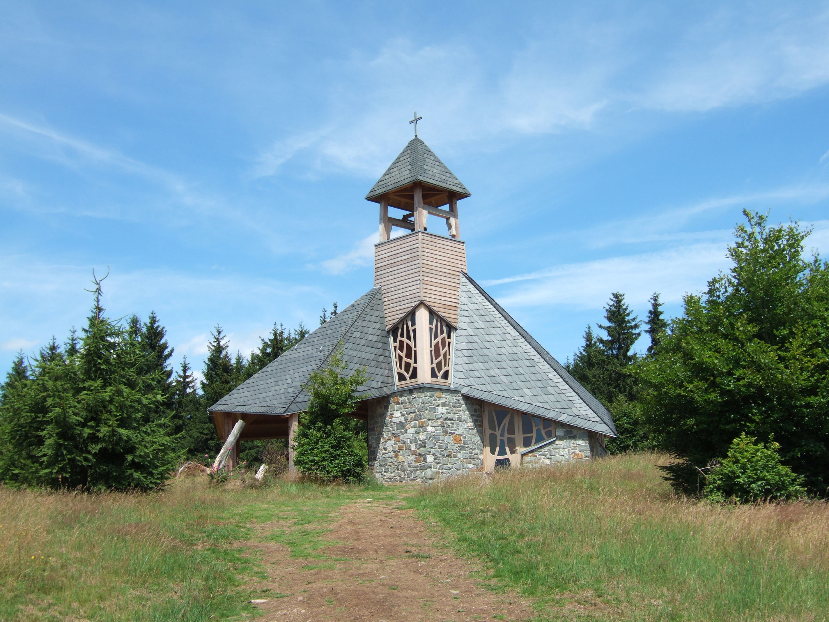 Quernst Chapel, Kellerwald-Edersee National Park, Germany